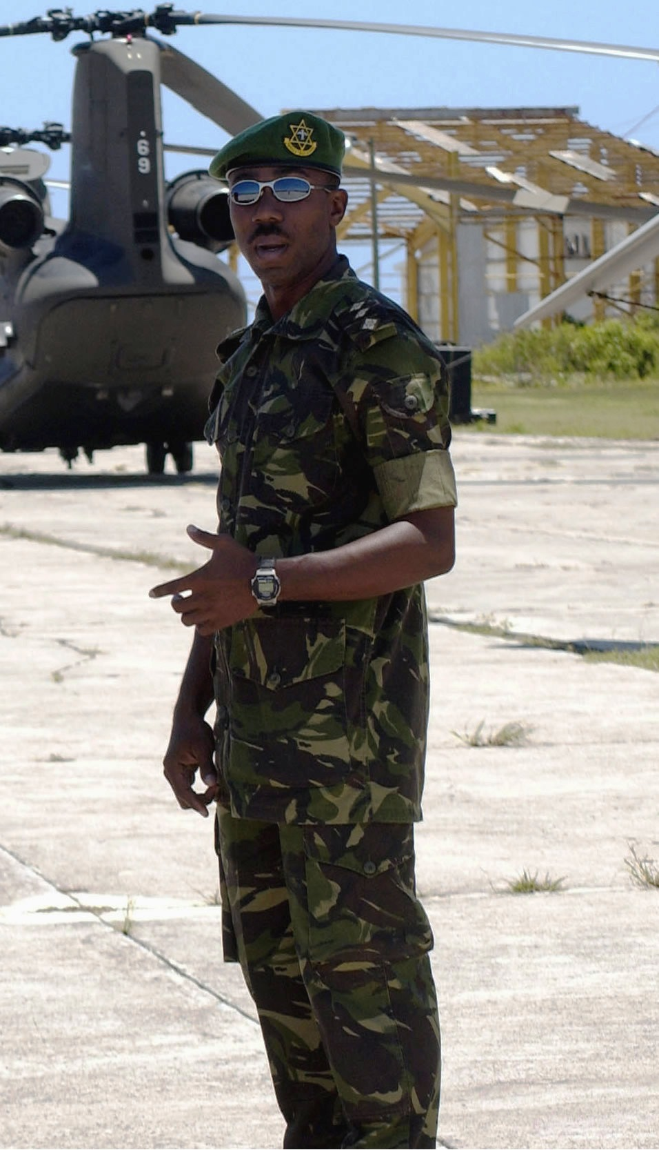 US Army (USA) Major (MAJ) Javier Bures, US Army South (USARSO), a logistician from Puerto Rico, left and Captain (CPT) Roger McLean with the Trinidad and Tobago Defense Force, brief one another at the Bird International Airport, on the island of Antigua.